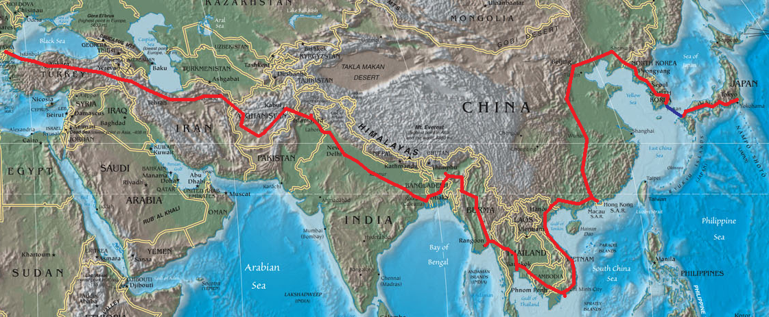 Map of Asian Highway 1